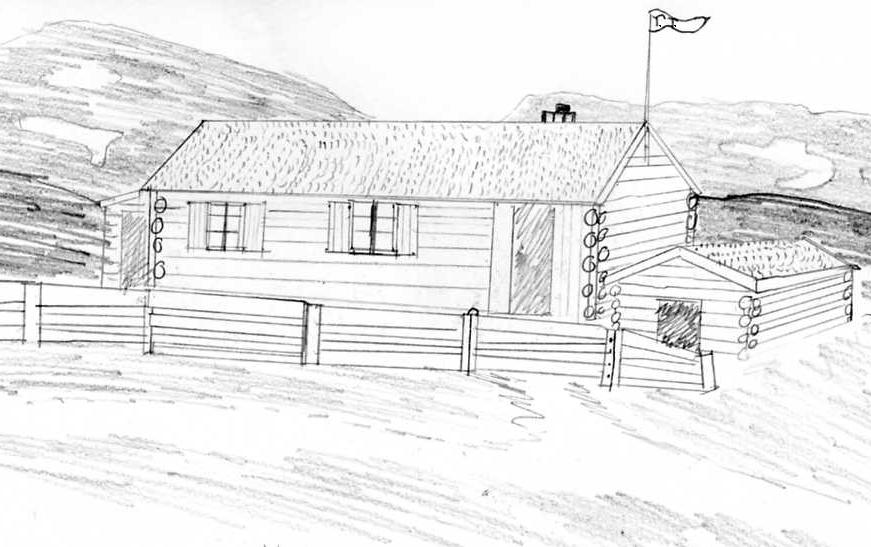 Selfdrawn sketch of Hosetsetra (miscopy in the file name), former Jøldalshytta in Trollheimen in Norway